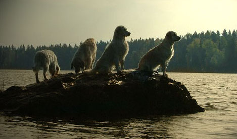 golden retrievers